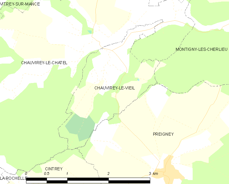 Map of French municipality